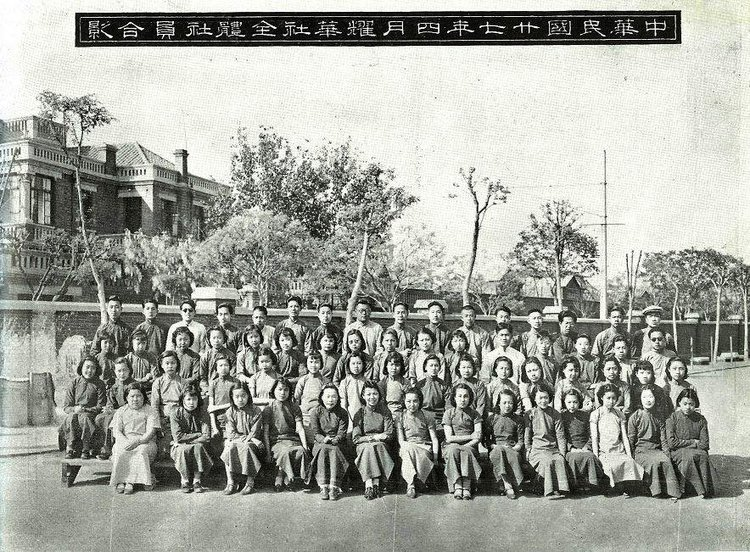 1938s in Yaohua,tientsin,ROC